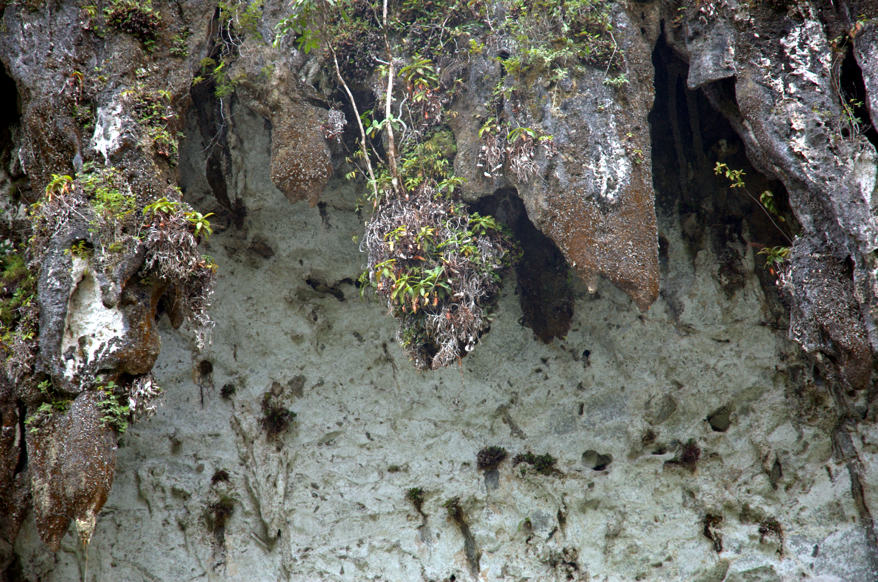 Nepenthes northiana growing on limestone clif in Bau Sarawak By Jeremiah Harris